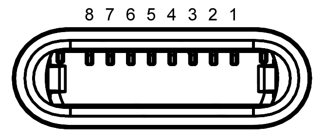 lightning pins